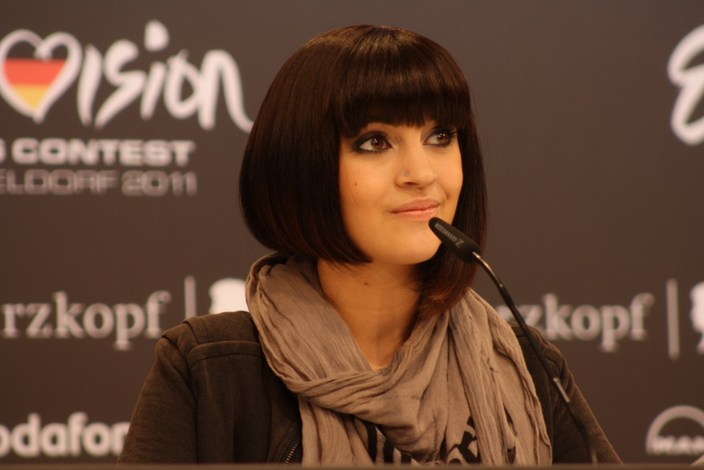 Nadine Beiler at a press conference at the Eurovision Song Contest 2011 in Düsseldorf.